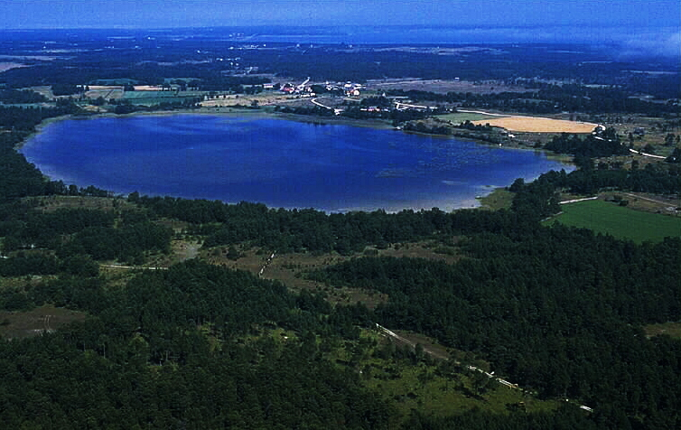 Dämbaträsk in Gotland municipality, Gotland county, Sweden